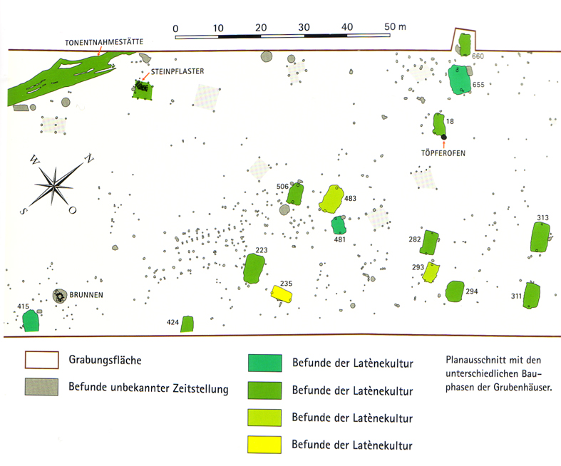 Excavationarea of the celtic settlement.